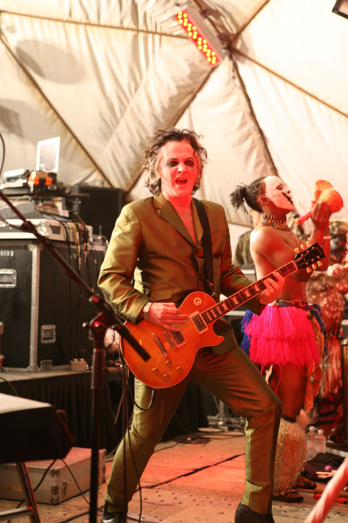 Juno Reactor performing live at Earthcore in Victoria, Australia.